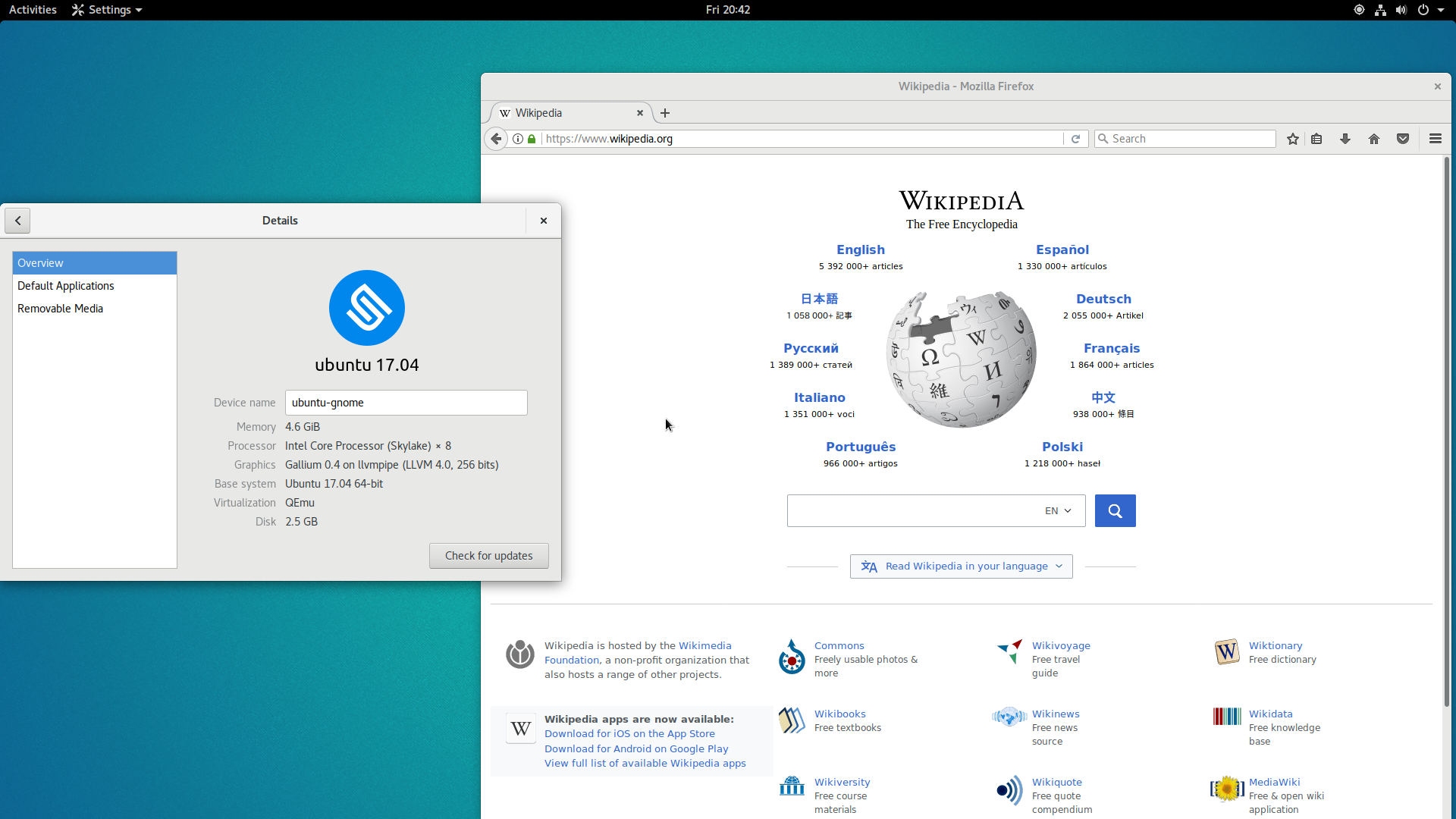 A screenshot of ubuntu gnome 17.04 with wikipedia and system info open